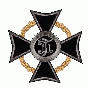 Austrian Cross 1917